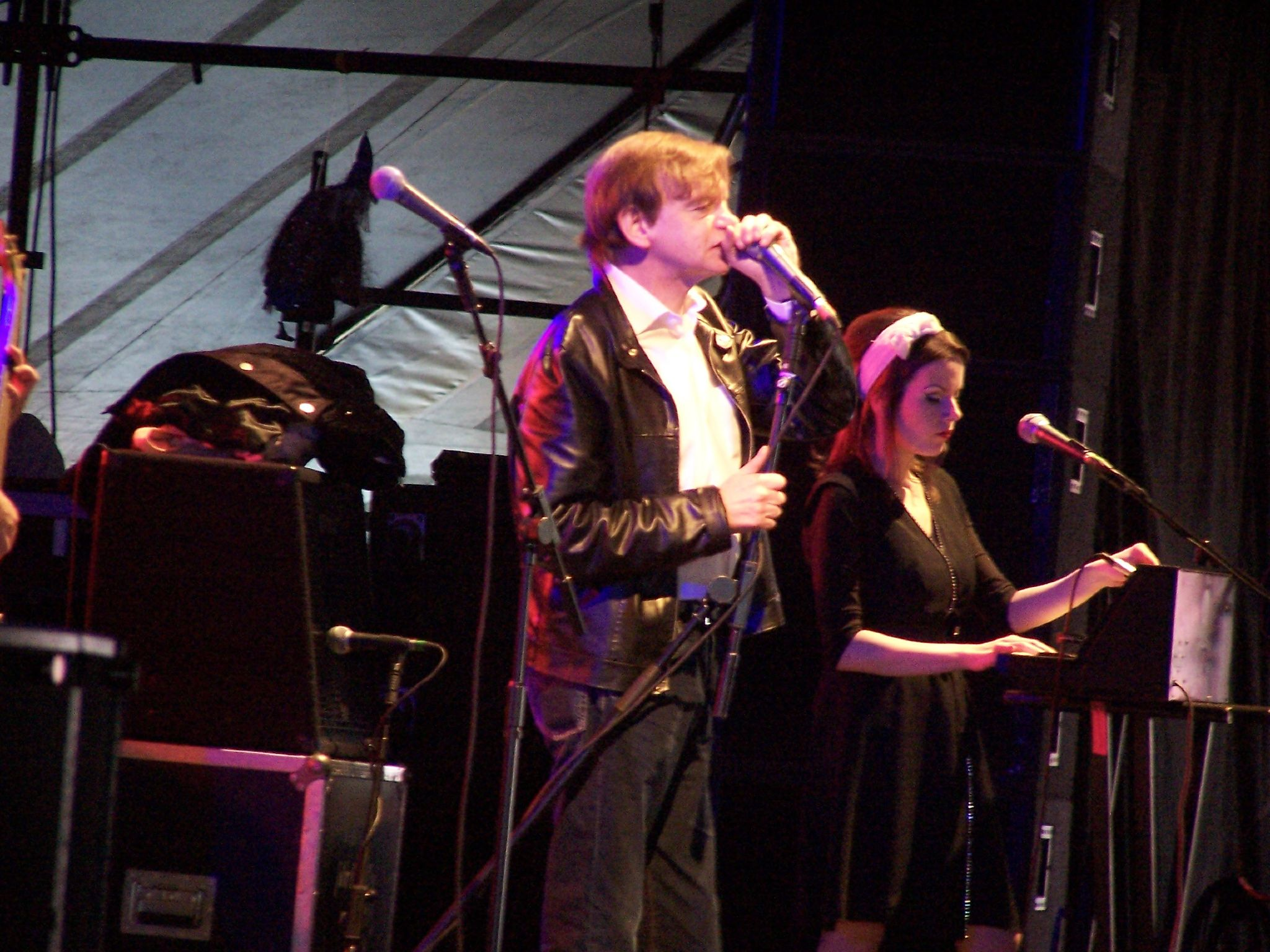 The Fall